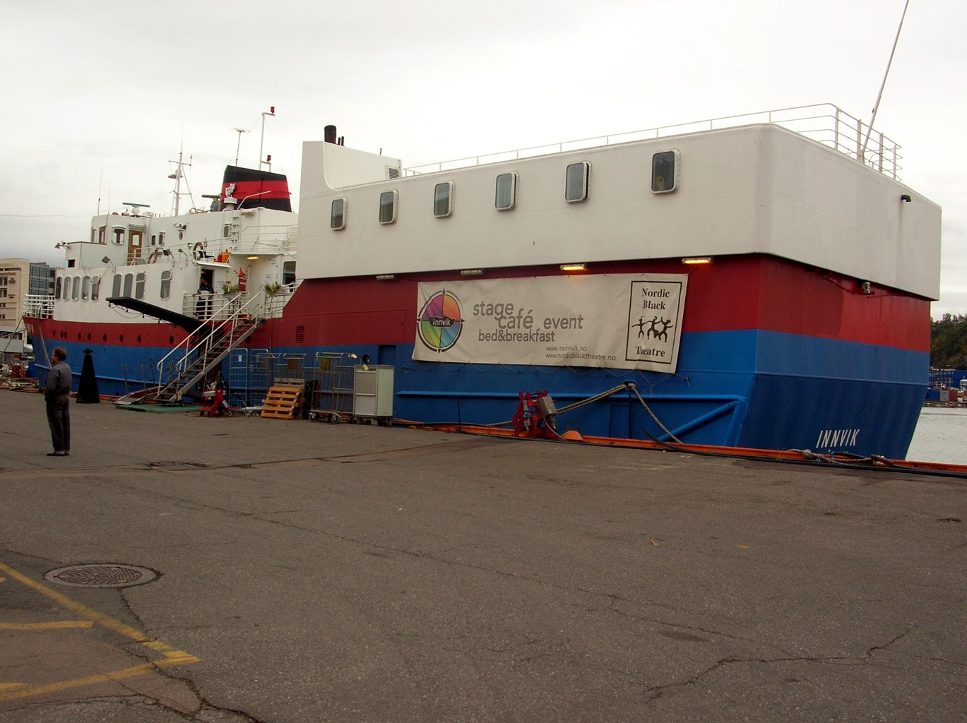 "Nordic Black Theatre" – theatre and cultural center on ship in Oslo (Norway) Name of ship : INNVIK IMO number : 6724294 Callsign : LLRE